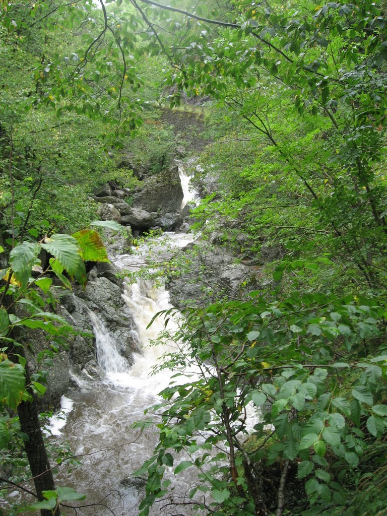 Taro river just after the spring